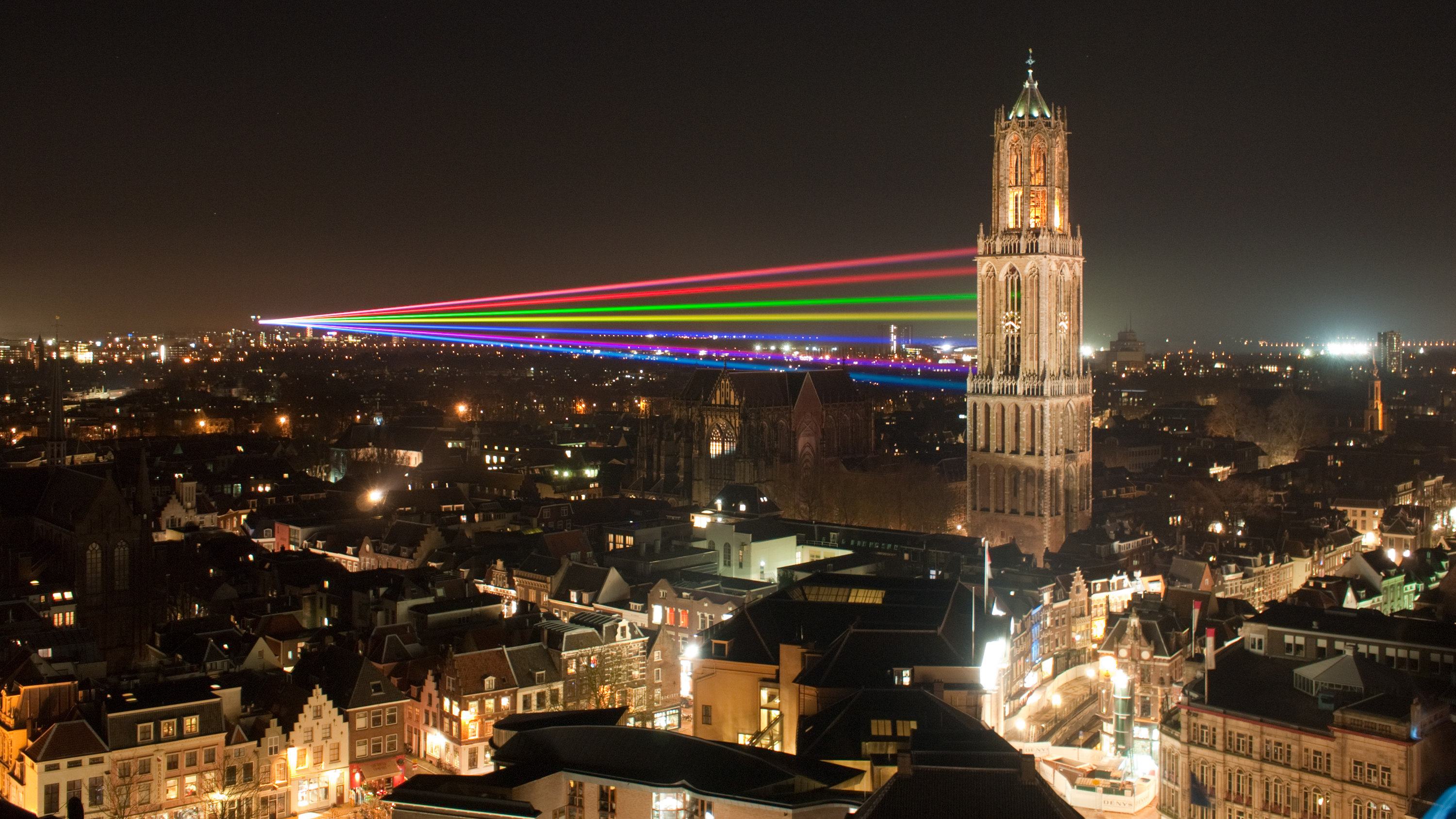 Sol Lumen is the name of the laser artwork linking De Uithof with the city centre as part of Utrecht University’s 375th anniversary celebrations. "For the opening of the anniversary celebrations, Utrecht University commissioned Laserfabrik to create this unique work of art in the Netherlands. From 20 to 26 March, seven coloured laser beams will shine across three kilometres, linking Utrecht Science Park/De Uithof and the Utrecht city centre. The Sol Lumen laser installation symbolises the strong knowledge and cultural ties between Utrecht University and the city of Utrecht. The first artwork of its kind to be displayed in the Netherlands, the installation will be visible a considerable distance from the city. Sol Lumen is part of Utrecht University’s 375th anniversary celebrations." ( 23 March 2011)